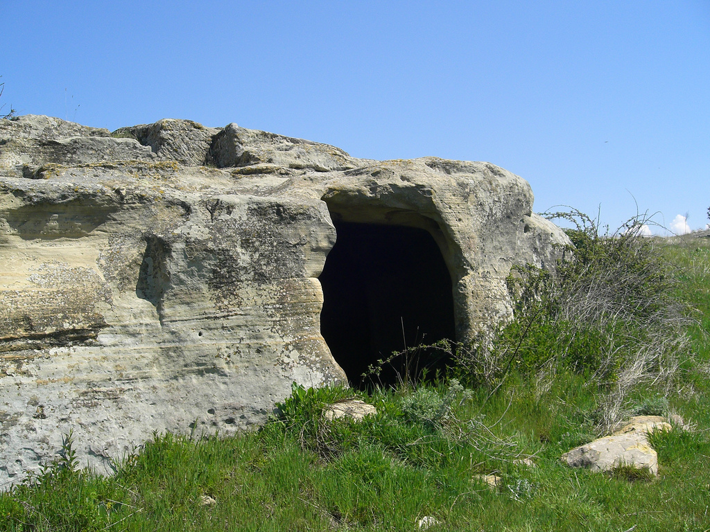 hermitage stone